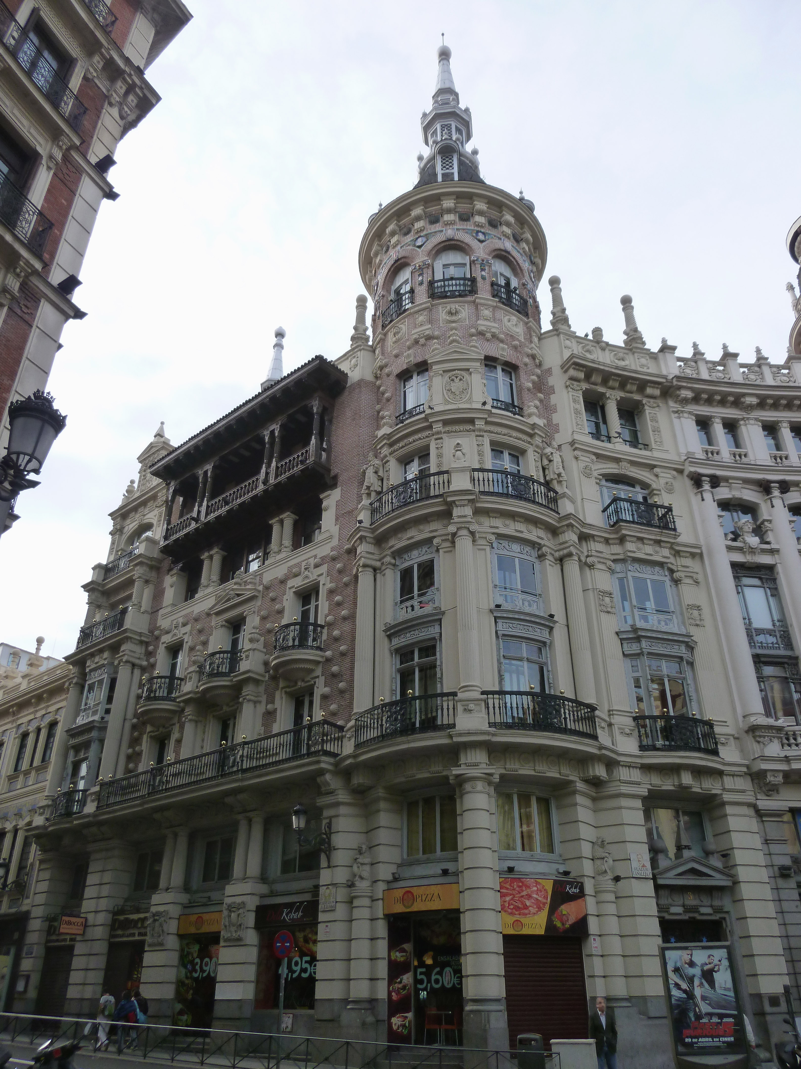 Façade of Casa de Don Tomás de Allende ("Don Tomás de Allende's House") at Plaza de Canalejas (square) in Madrid (Spain).